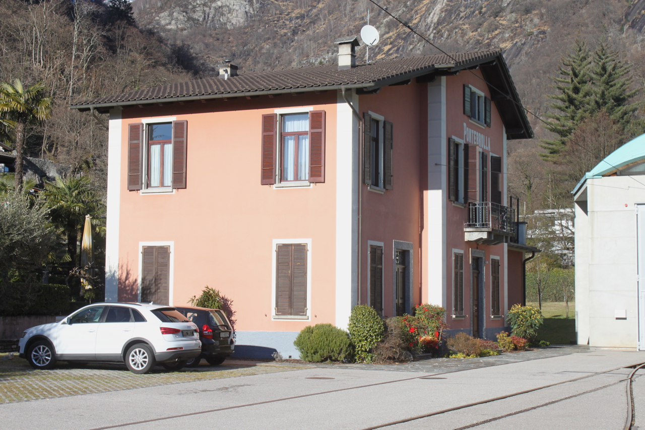 Ponte Brolla LPB train station, in use 1907-1923.